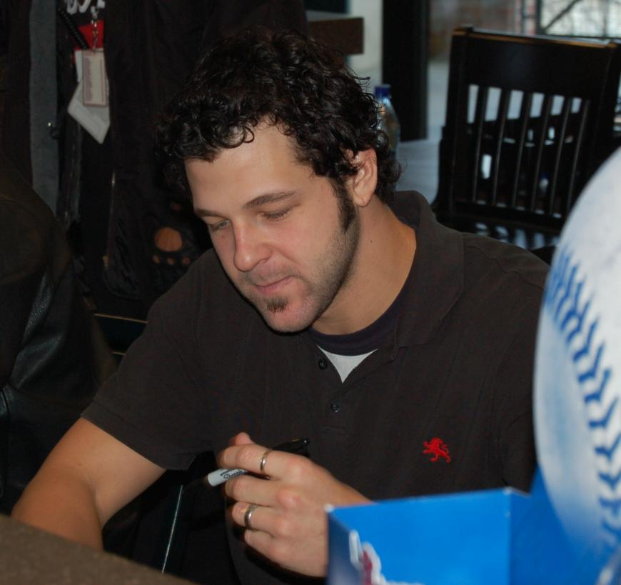 Anthony Lerew signing autographs at Fan Fest 2007